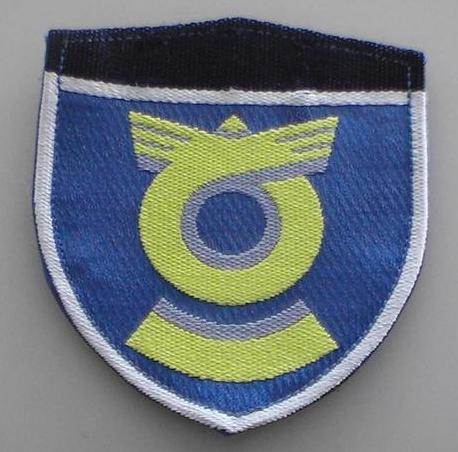 Director General Independent Troops